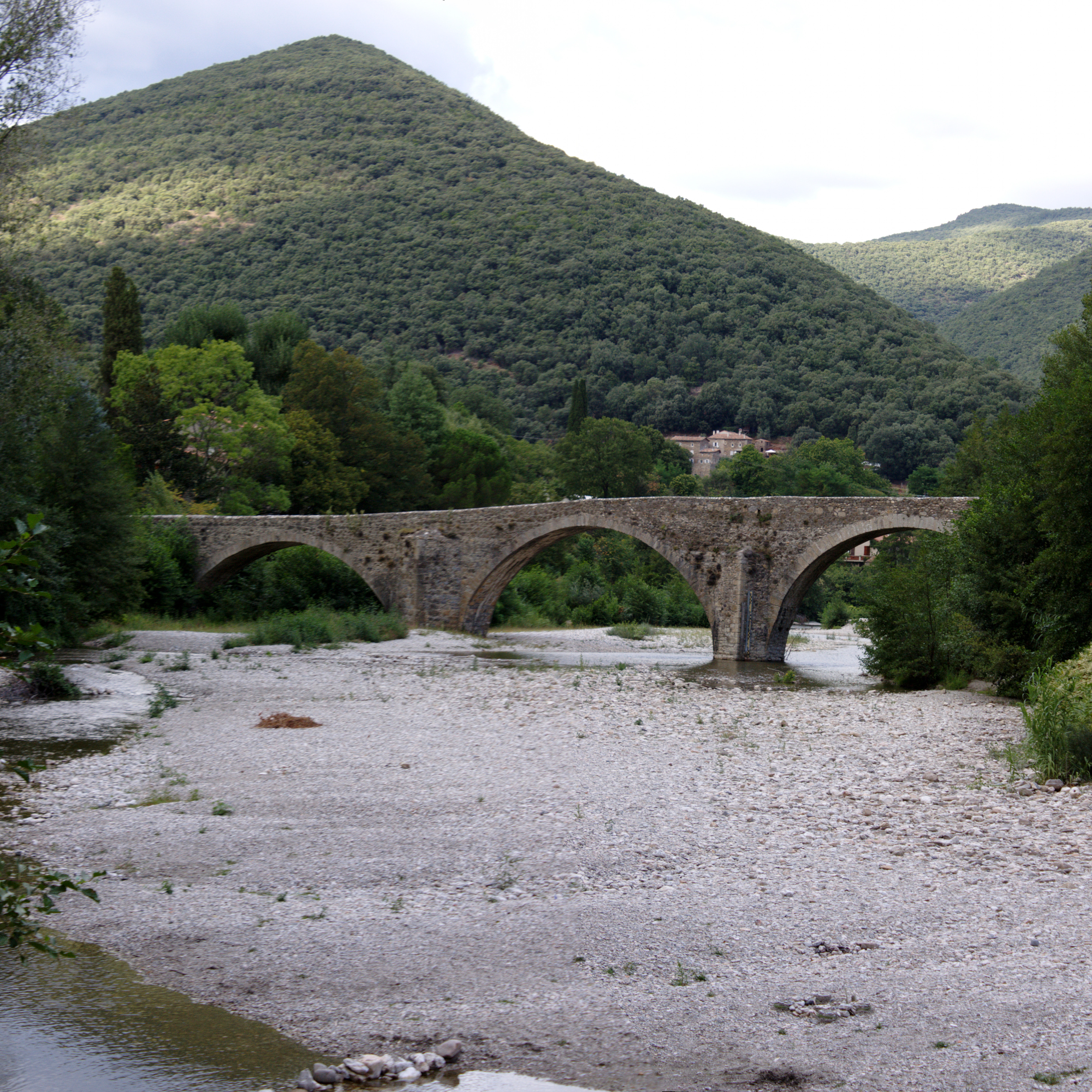 Bridge of the Camisards, over the Gardon, 17th and 18th centuries, with, in the background the mount “La Fage”.